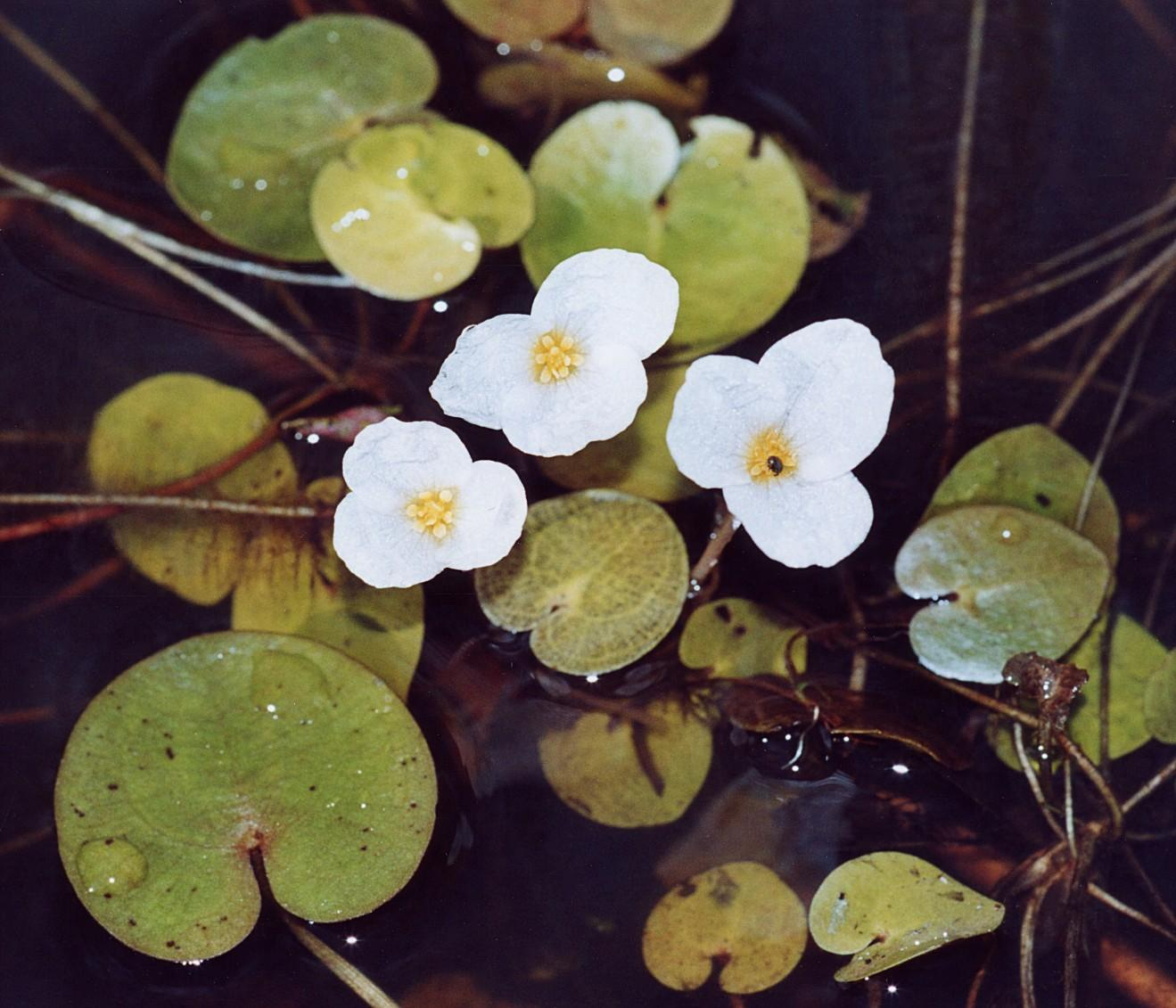 Blossoms and swimming leaves of Hydrocharis morsus-ranae.